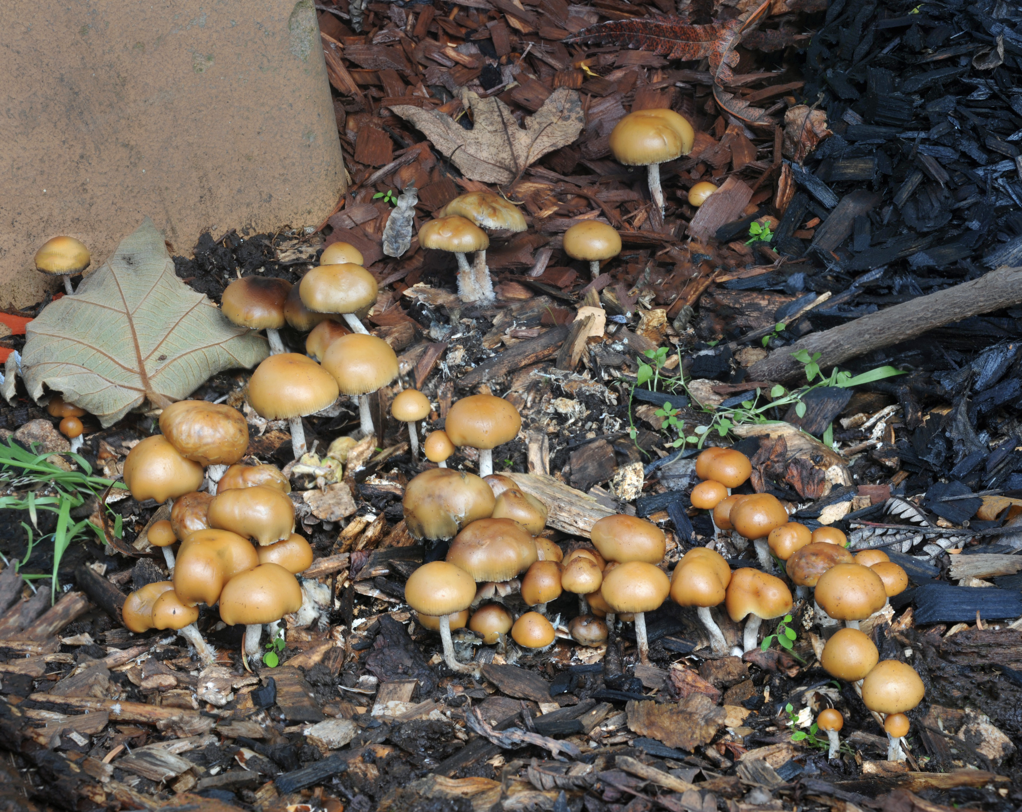 Psilocybe allenii growing on wood chip landscaping.